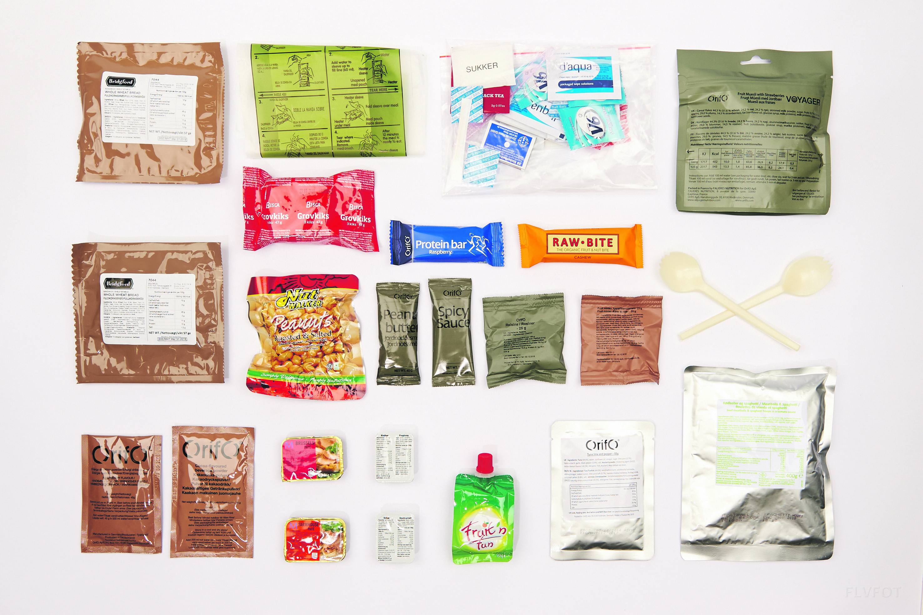 The danish combat ration from 2015 and forward